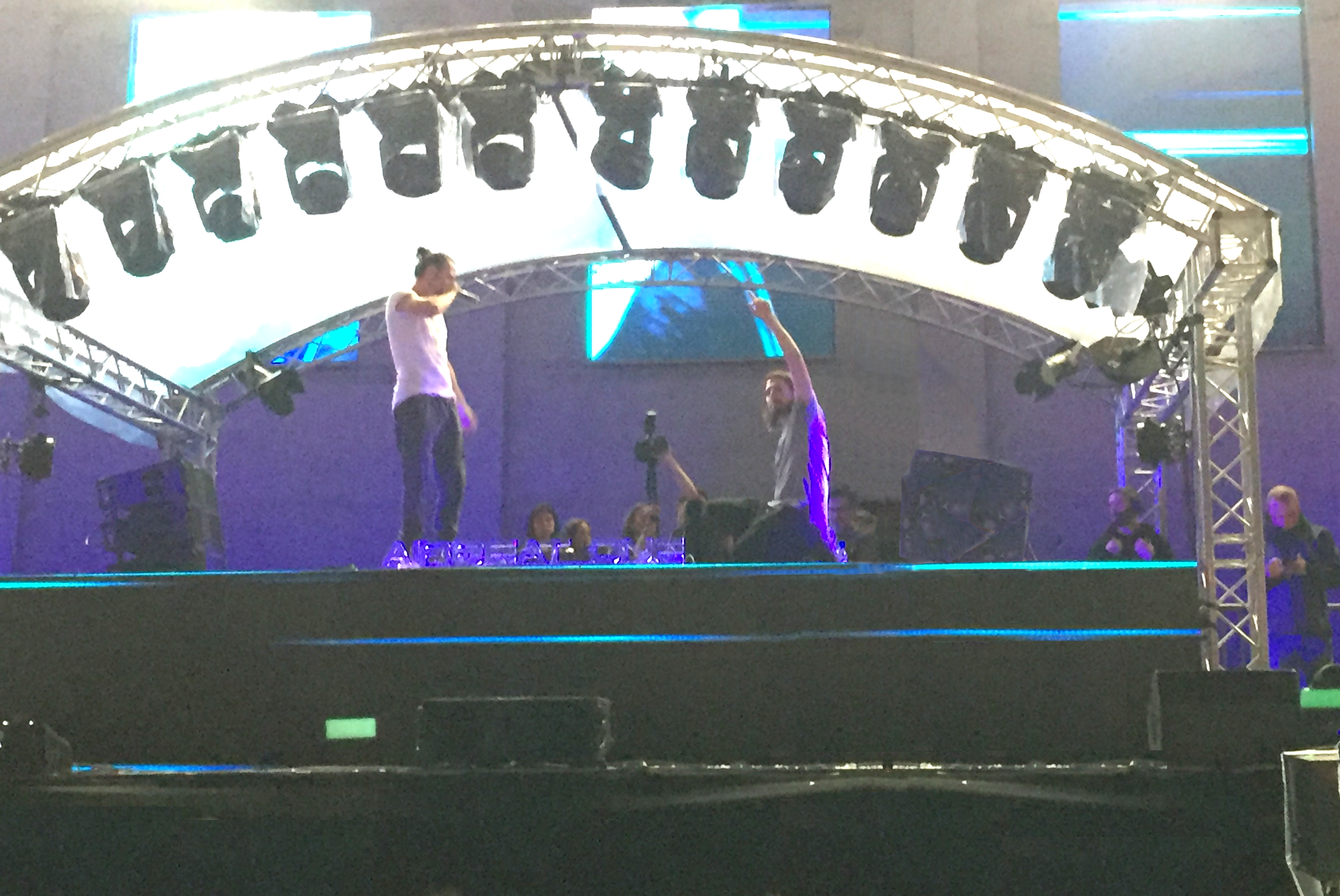 Dimitri Vegas & Like Mike playing live at Airbeat One Festival in Neustadt Glewe, Germany.